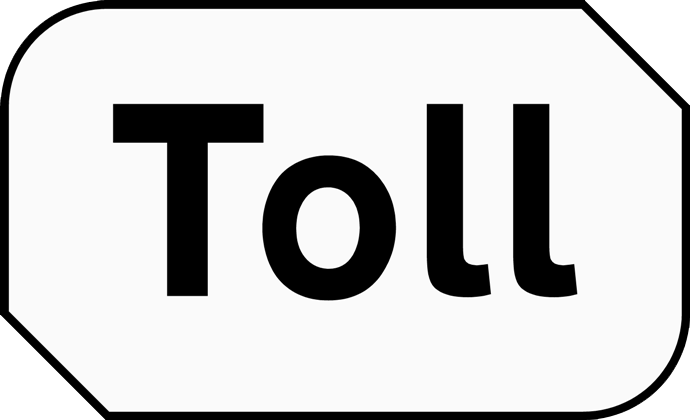 Ireland Road Toll symbol